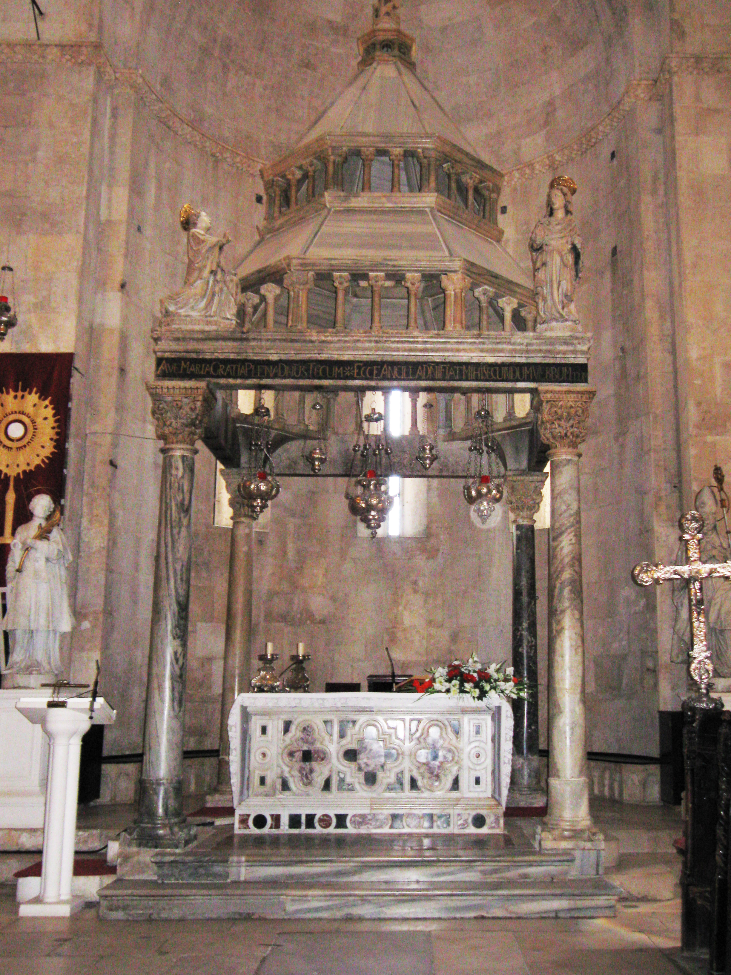 Ciborium of Cathedral of St. Lawrence in Trogir